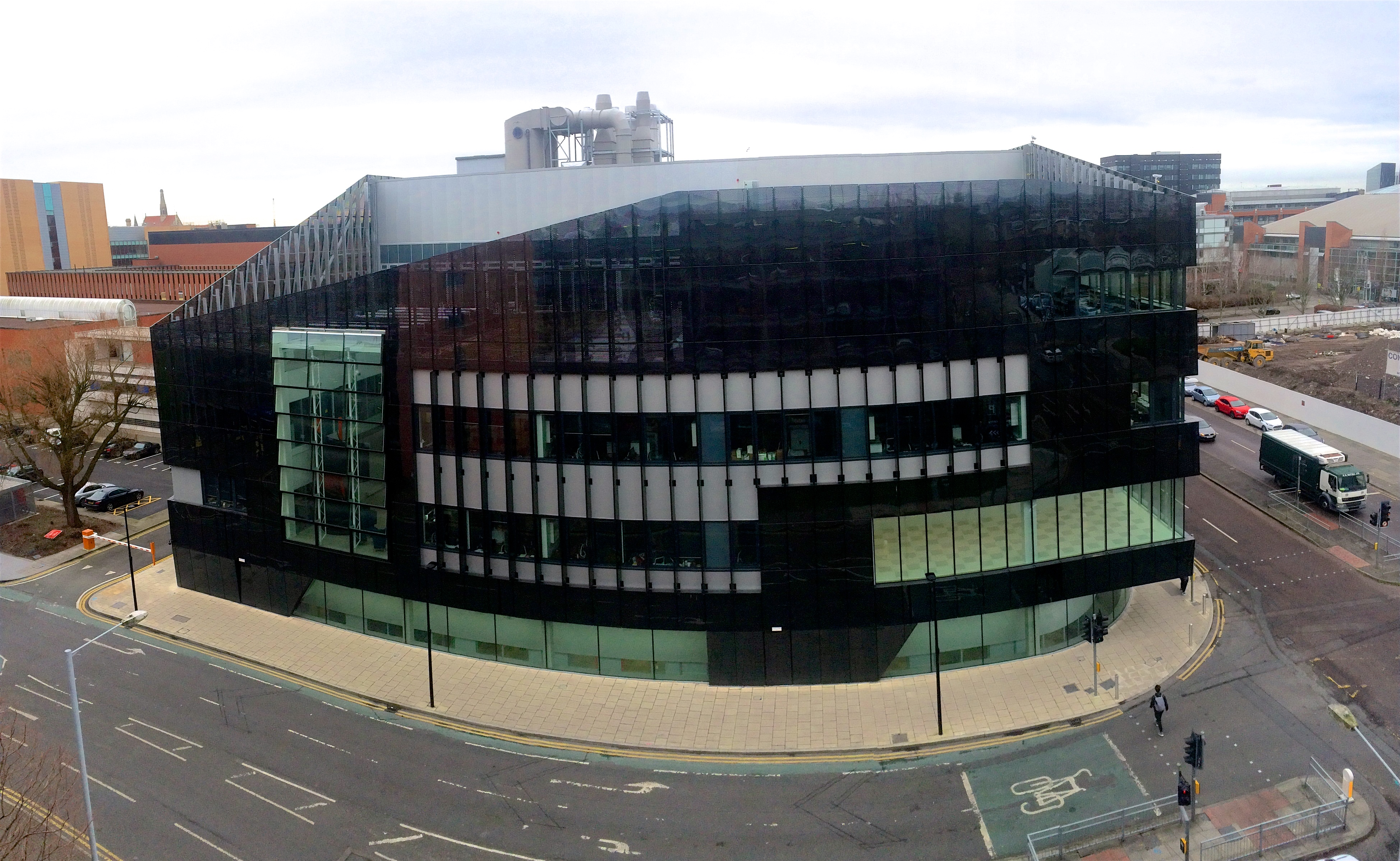 National Graphene Institute, University of Manchester, United Kingdom.